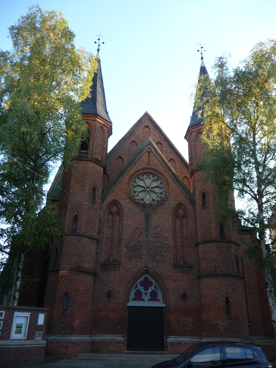 Liberty-Church in Bremen